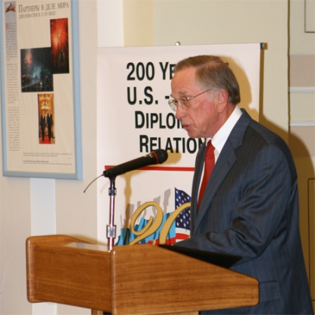 Former U.S. Senator Sam Nunn (left) speaking at a Bicentennial Spaso Discussion Forum. Moscow, August 27, 2007